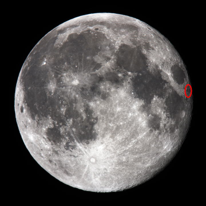 The Location of Mare Undarum, One of the Lunar Geographical Features.